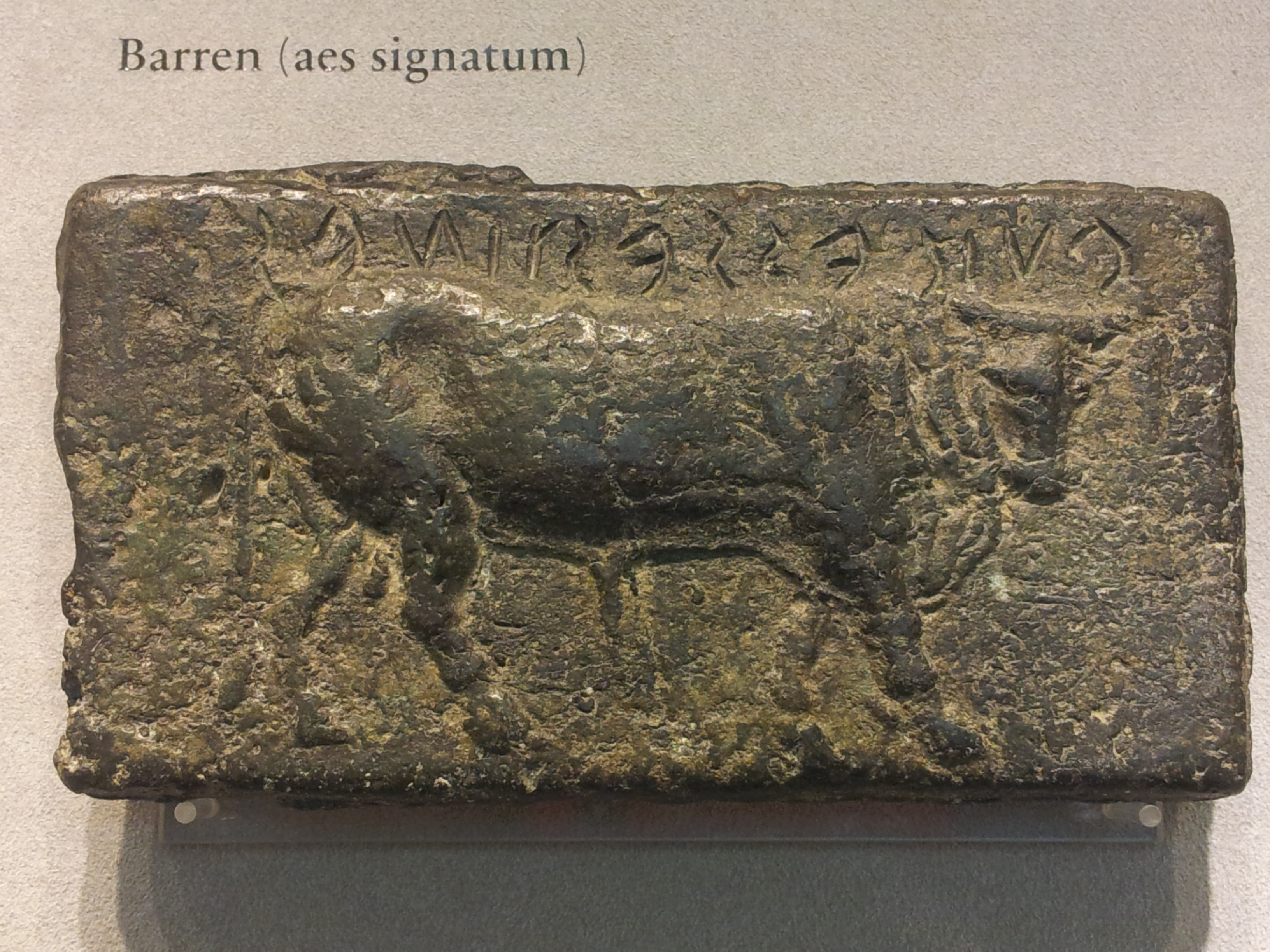 Dating from the years 280-242 BC. On display in the coin cabinet of the Altes Museum, Berlin.